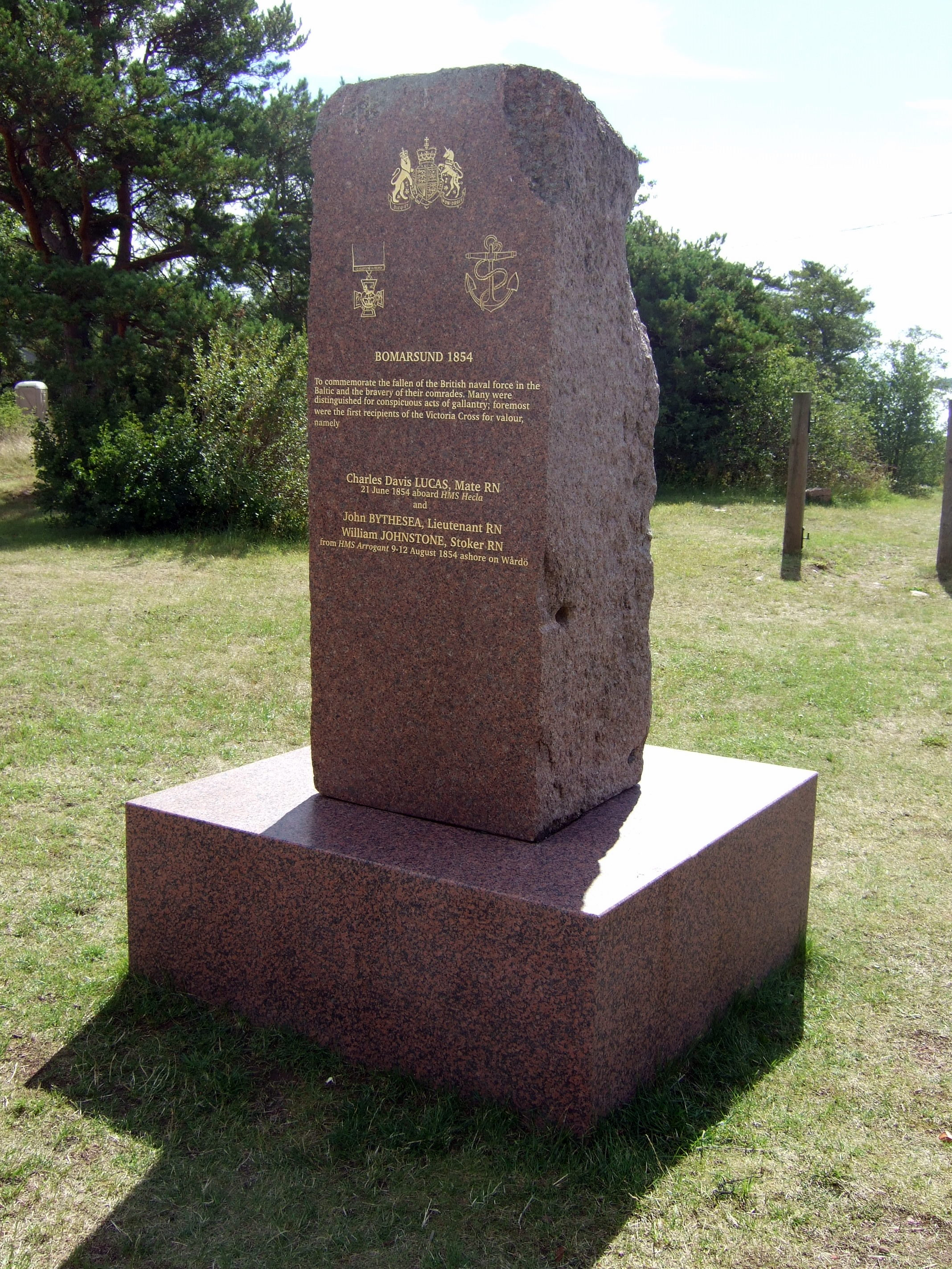 Monument conmemorating the fallen of the Britih navy, in Bomarsund, Åland